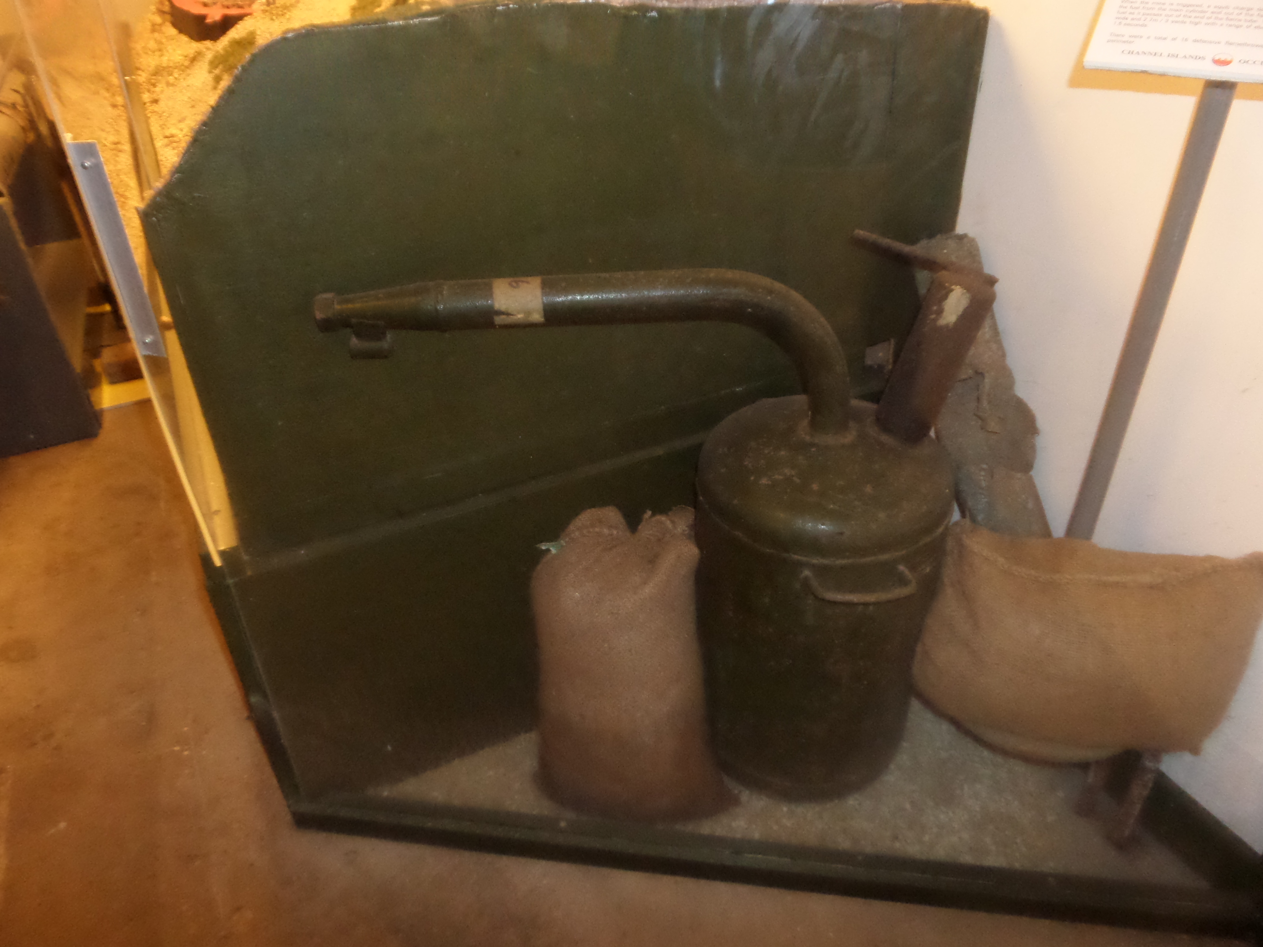 German static flamethrower mine of the Second World War. The Abwehrflammenwerfer 42. Displayed at a German WWII complex: Battery Lothrington - a complex on the island of Jersey in the Channel Islands.